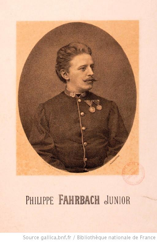 The austrian violinist Philipp Fahrbach der Jüngere (1843-1894)